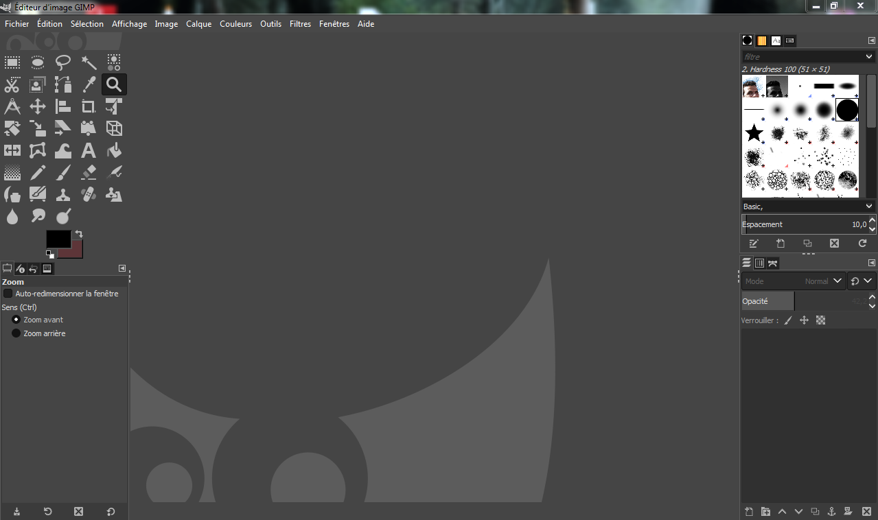 Screenshot of GIMP 2.10.0